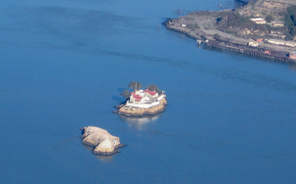 Picture of Brothers Island in the San Francisco Bay.